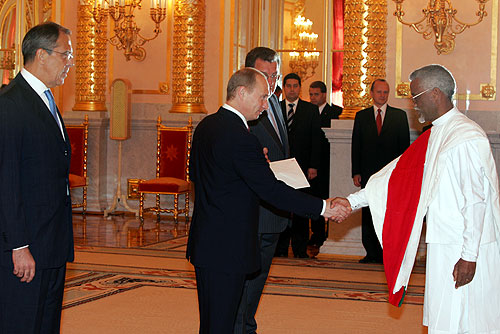 GRAND KREMLIN PALACE, MOSCOW. Ethiopia\'s Ambassador to Russia, Teketel Forsido Vamisho, presenting the letter of credential.